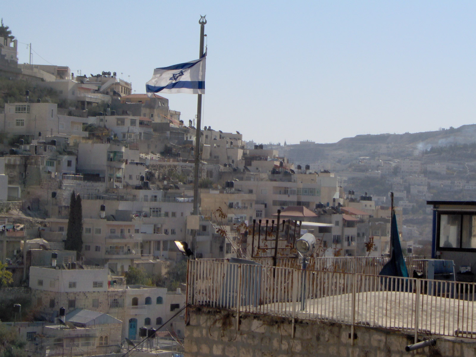 A house in the City of David in Jerusalem